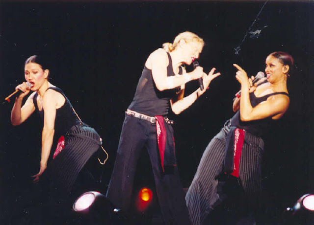 Photo taken at the concert